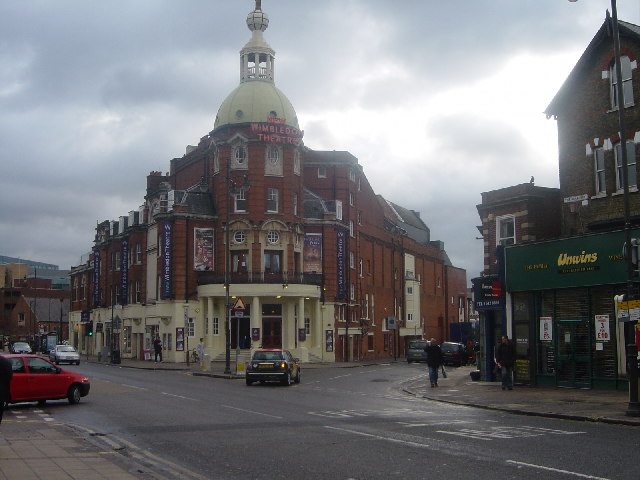 Wimbledon Theatre. Wimbledon Theatre has a beautiful Edwardian interior. Pantomimes are shown at Christmas with top television stars performing. Sometimes plays and shows come here first before opening in the West End.